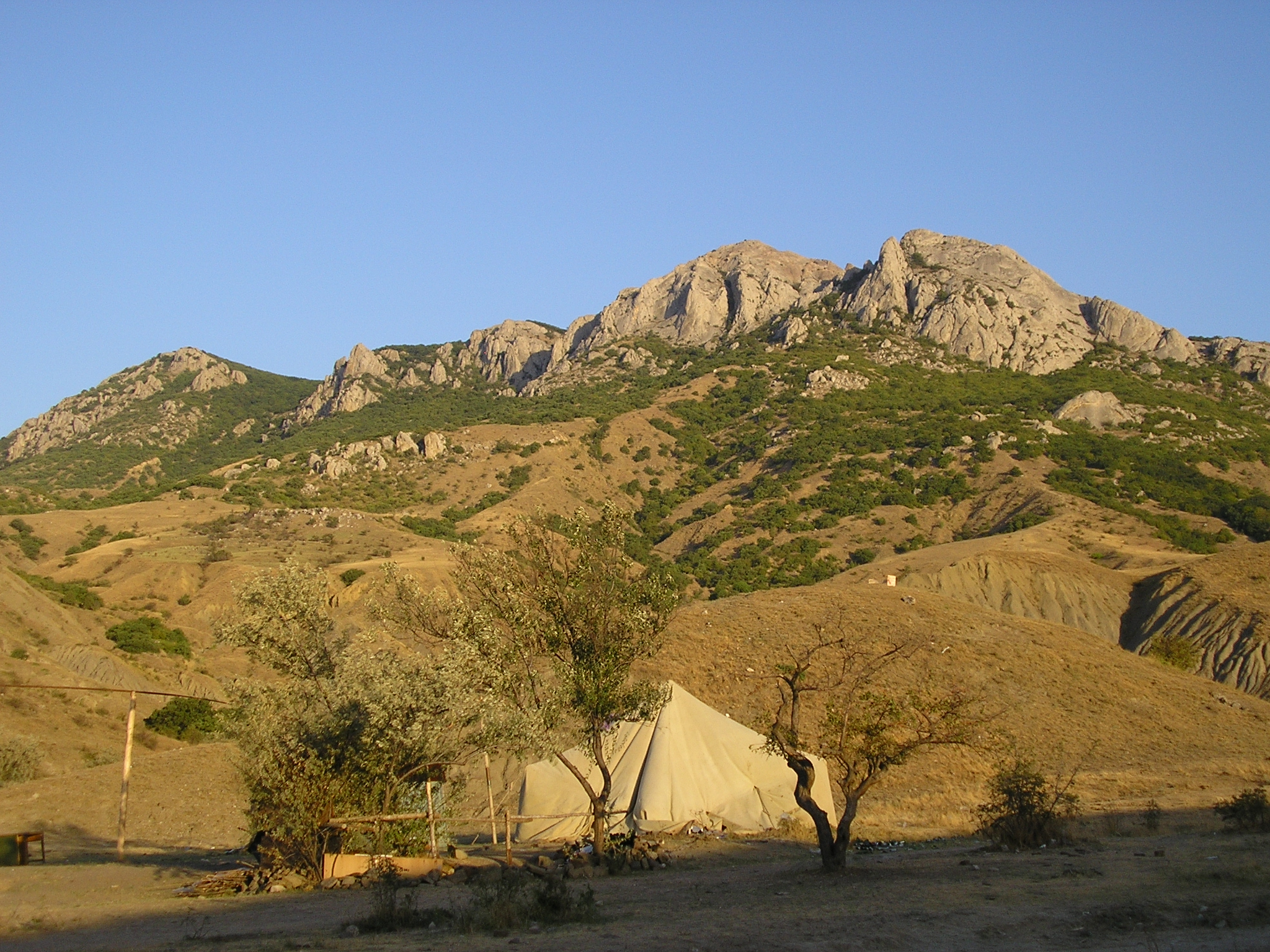 The mountain Echki-Dag en Crimea